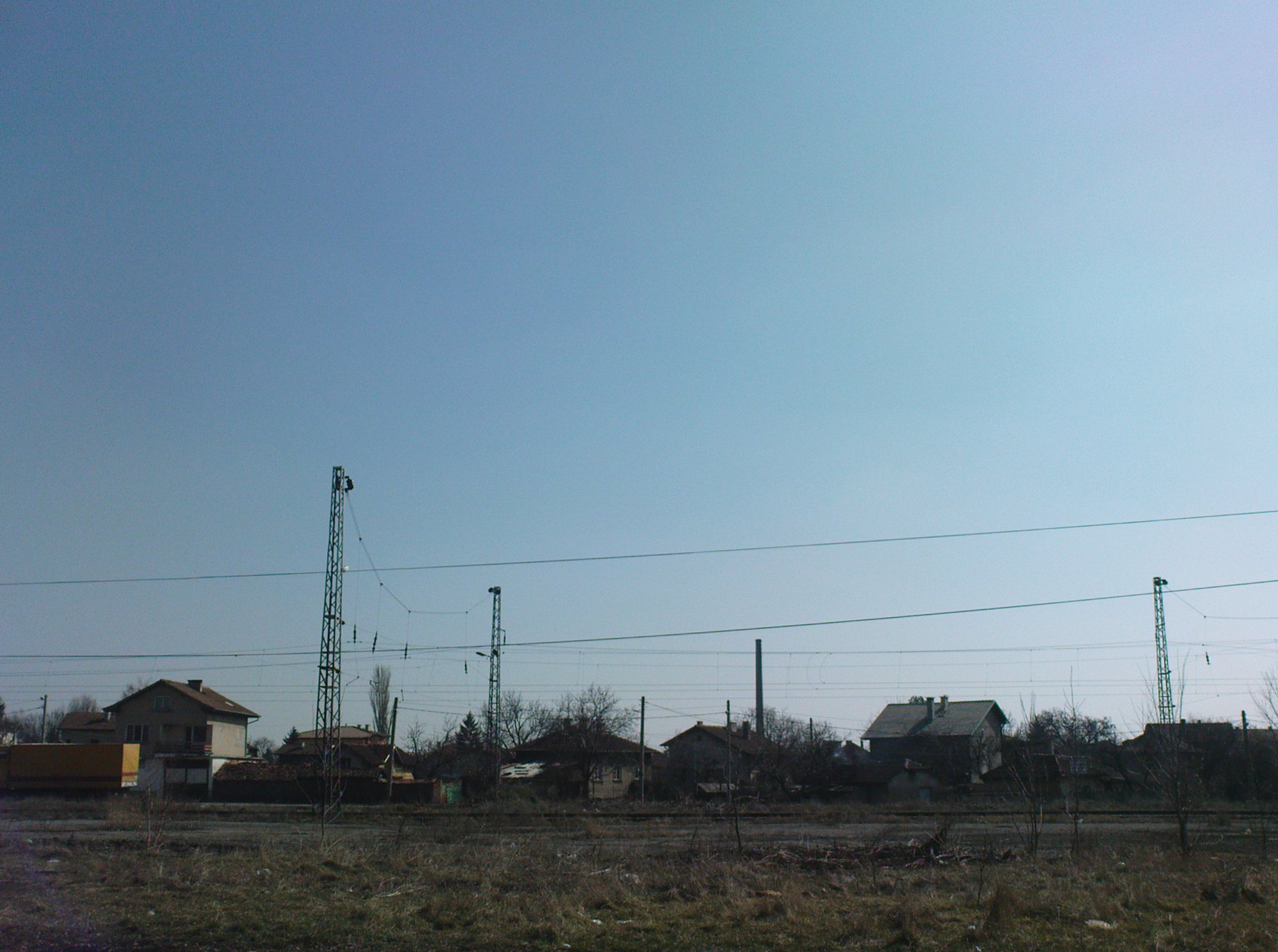 Svetovrachene, Novi Iskar